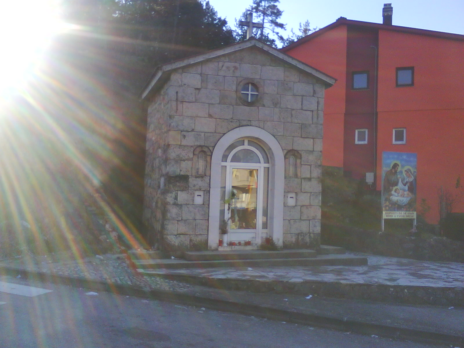 Chapel of St. Anthony of Padova